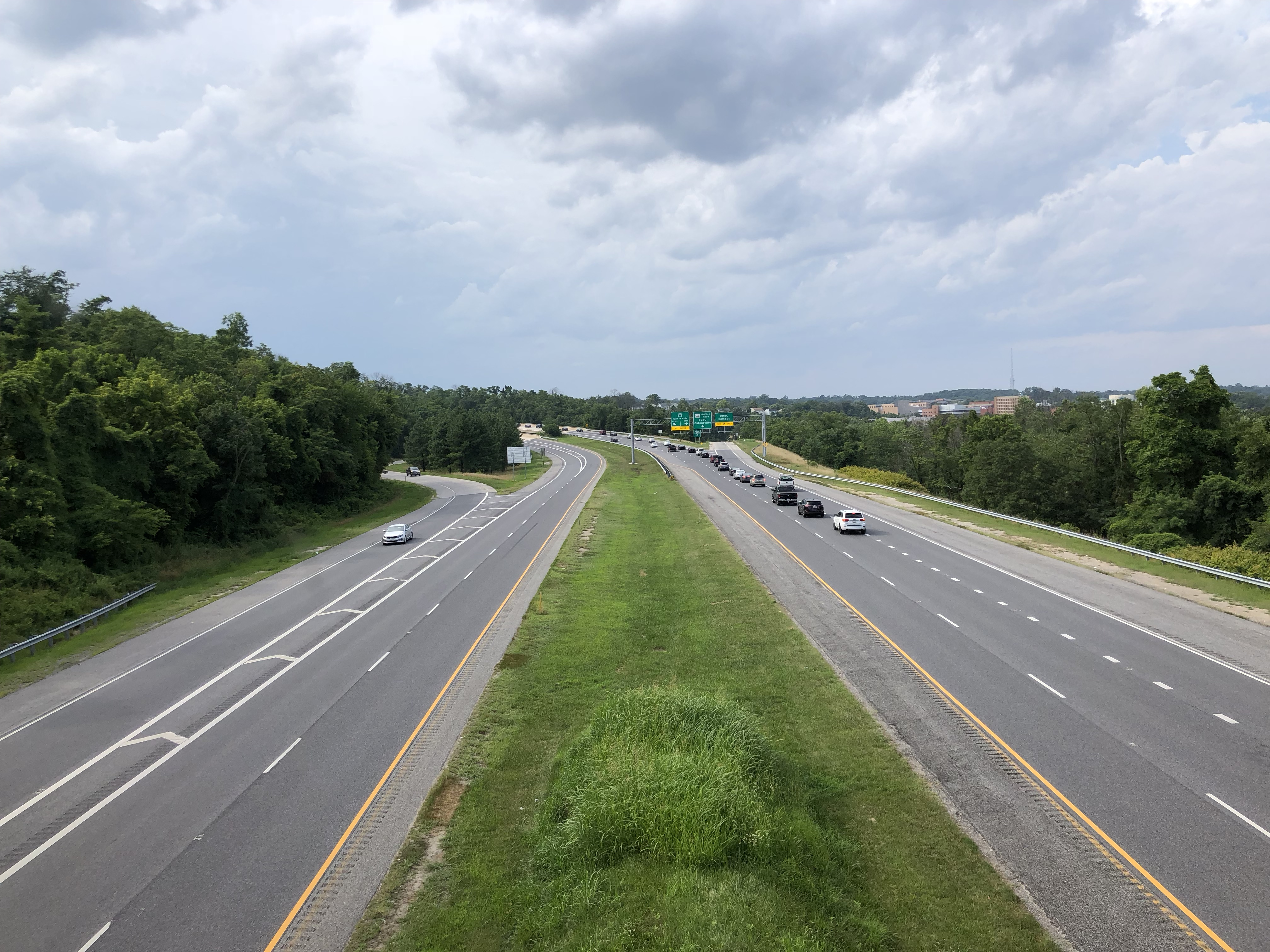 View north along Maryland State Route 166 (Metropolitan Boulevard) from the overpass for Selford Road in Catonsville, Baltimore County, Maryland